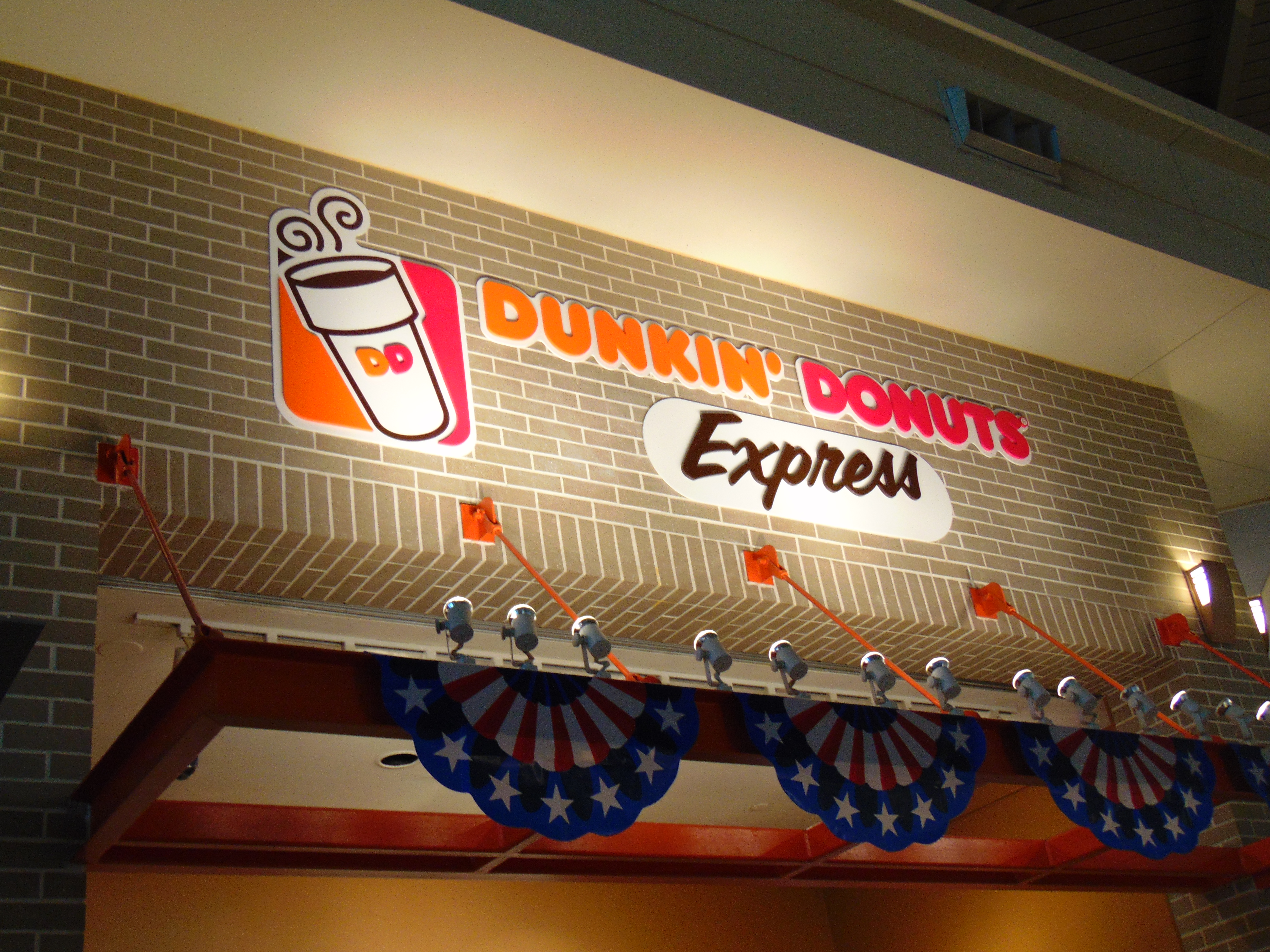 This Dunkin' Donuts Express is located in Chicago Midway Airport (MDW) (Taken from my flickr)